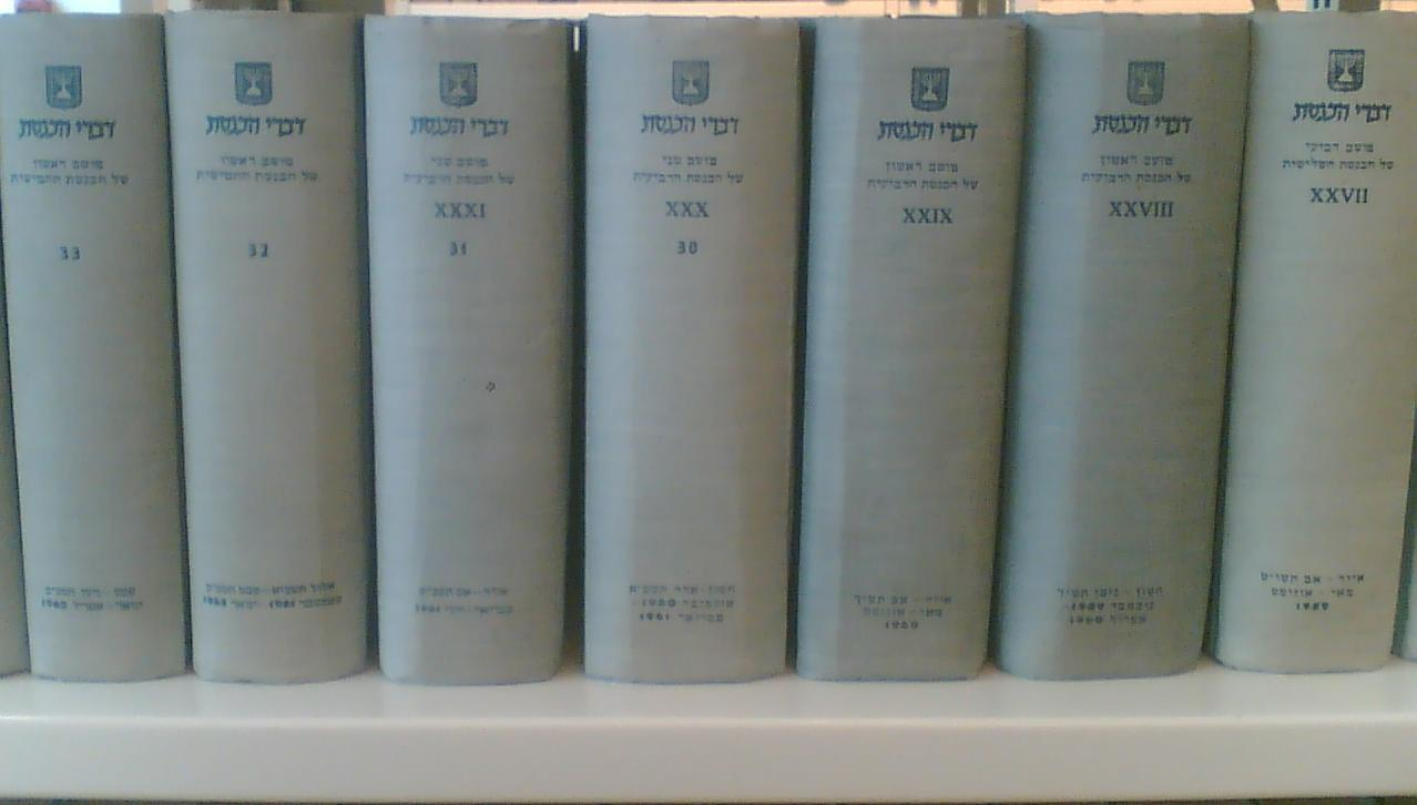 Divrey Hakneset